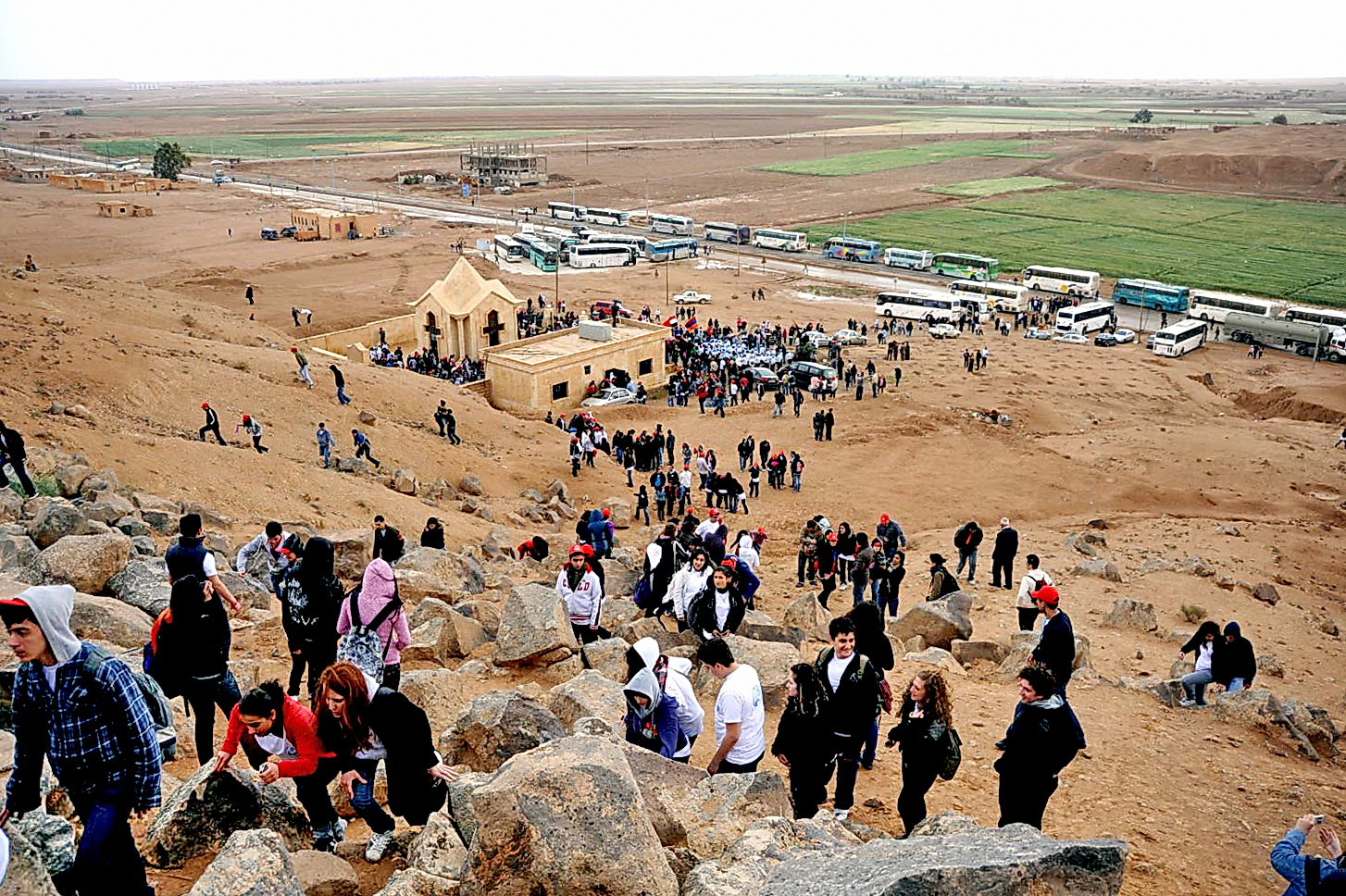 The memorial chapel to the Armenian Genocide in Margadeh in the Syrian desert.